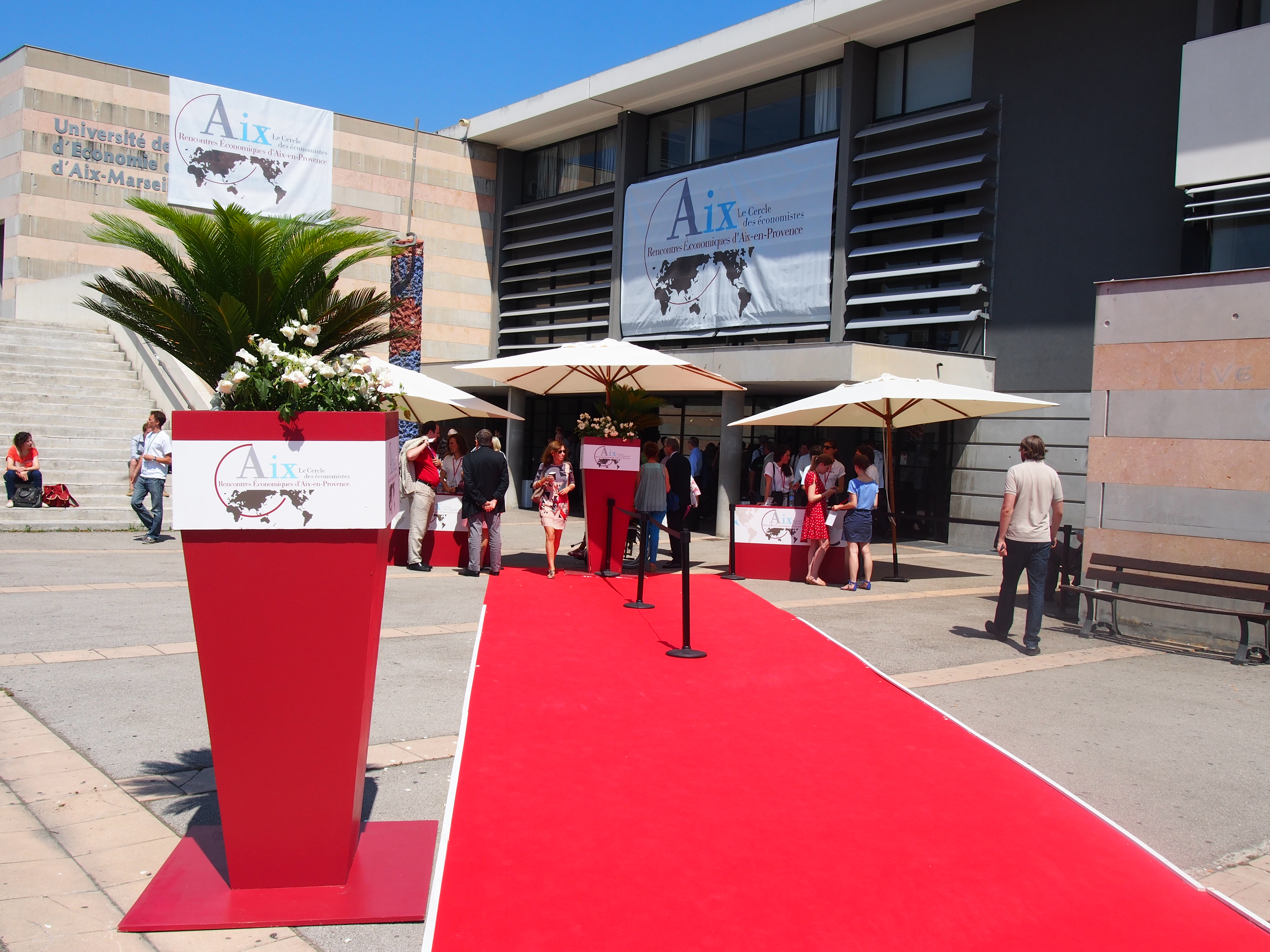 Université d'Aix-Marseille